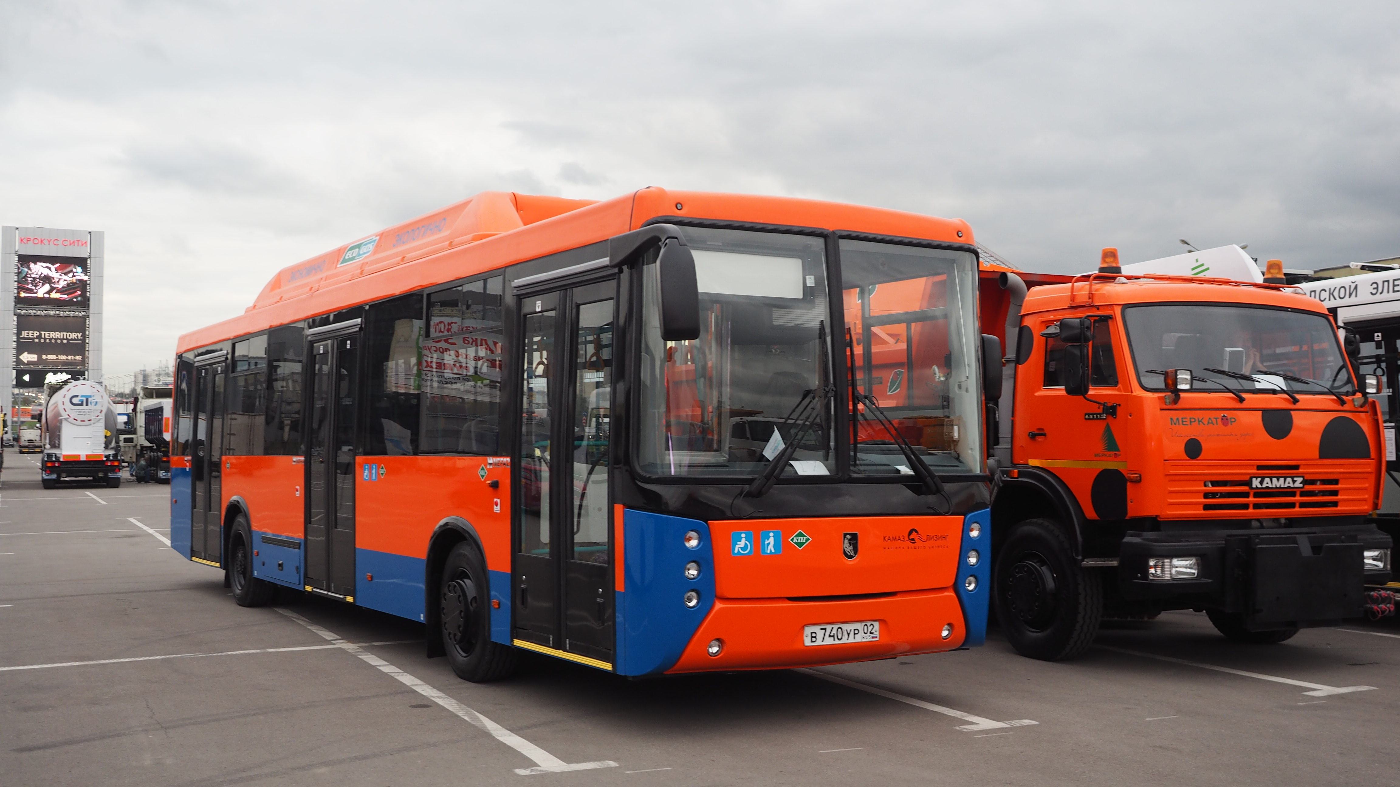 NefAZ-5299 CNG bus for Naberezhnye Chelny. Comtrans 2015 exhibition im Moscow.